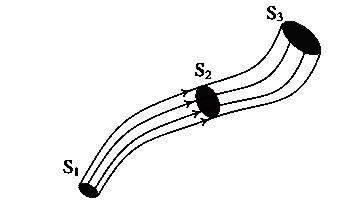 Tubo de fluxo2